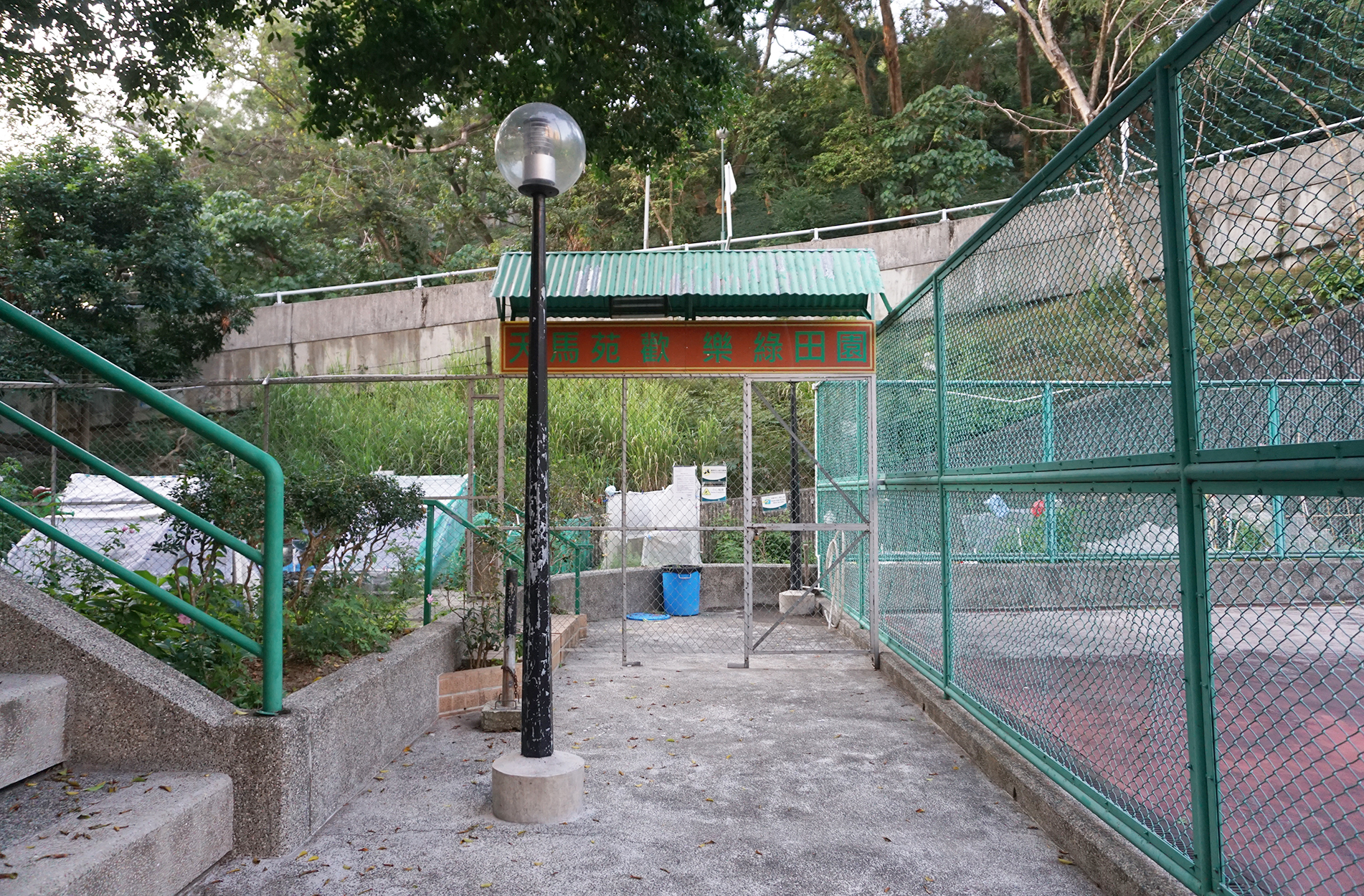 Tin Ma Court in Chuk Yuen, Hong Kong.